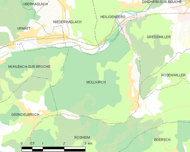 Map of French municipality